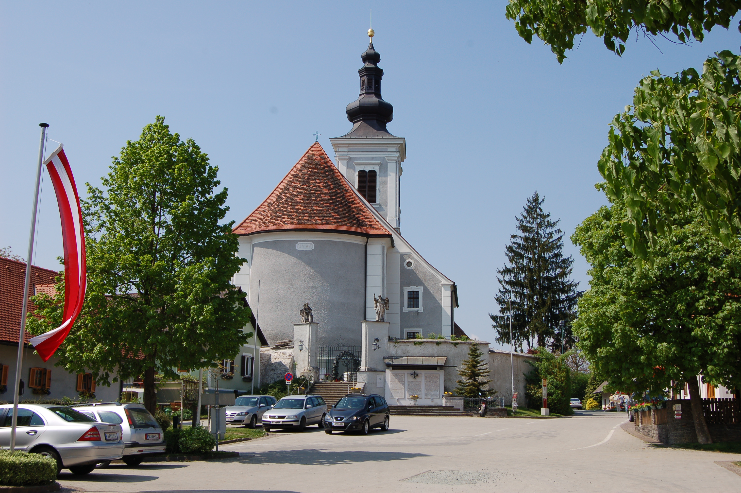 Frauenberg bei Leibnitz pilgrimage church, Seggauberg municipality, Styria